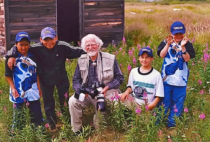 Photographer Hans Blohm shown with four young Inuit children. Photo taken in summer 2002 during the Inuit Circumpolar Conference in Kuujjuaq, Nunavik (Quebec), Canada.